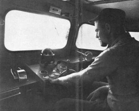 Pilot house of a Fast Patrol Craft (PCF, Swift boat)